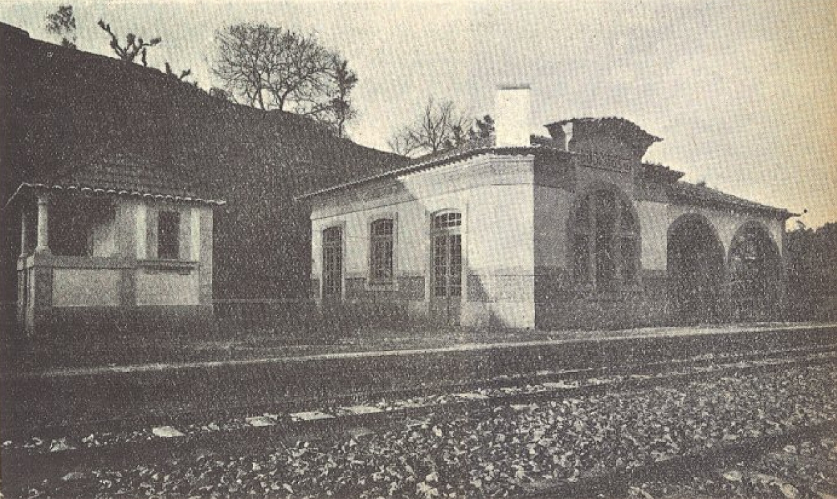 Codeçoso Railway Station, in the Tâmega Railway, in Portugal. This photograph was published on the Gazeta dos Caminhos de Ferro magazine No. 1104, of 16th December 1933, and scanned by the Hemeroteca Municipal de Lisboa.